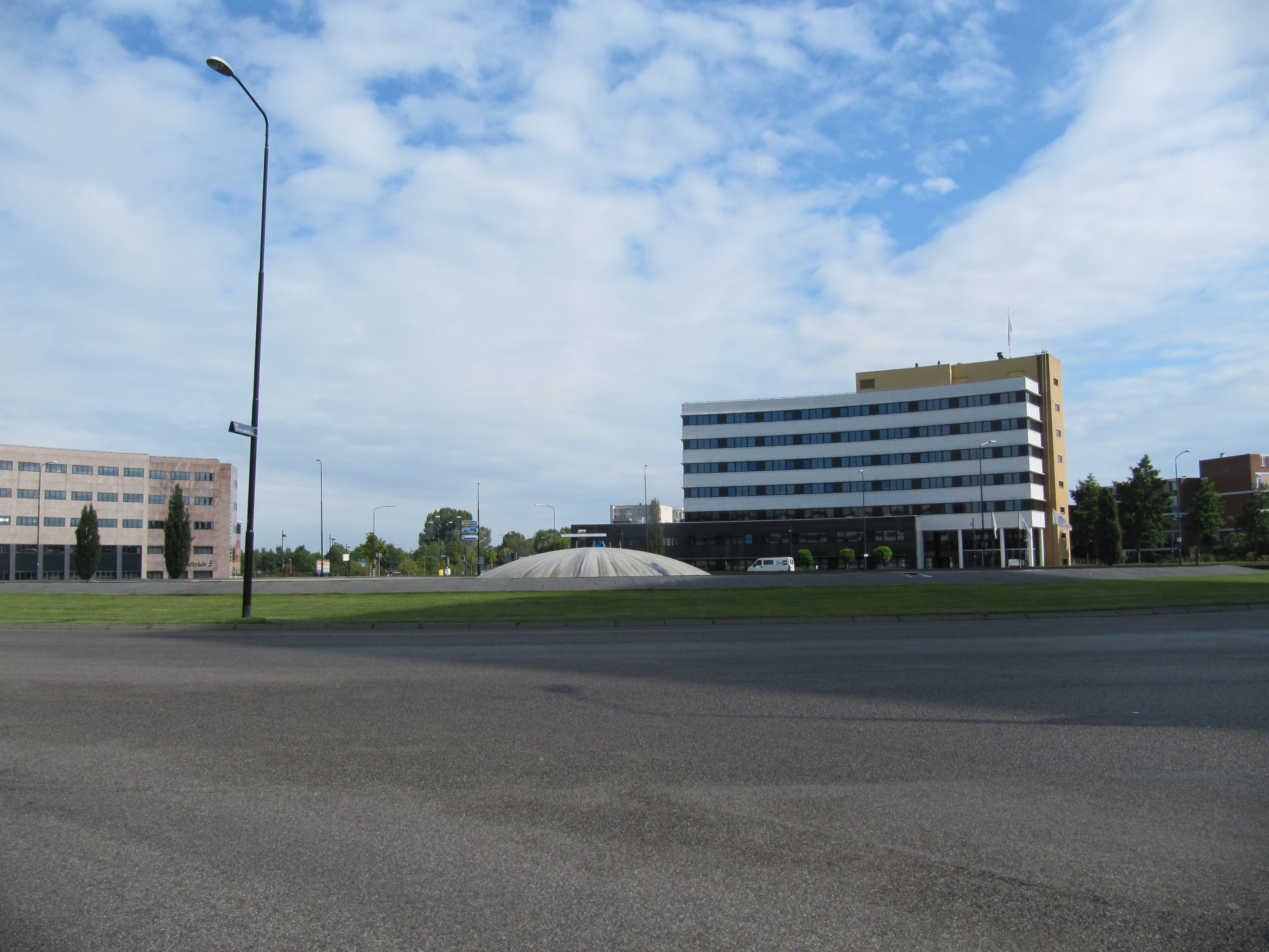 Fountain at the Takenhofplein in Nijmegen, with a text by the Dutch poet H.H. ter Balkt: "Hazelaar plantte ik voor haar vier poorten al haast vervluchtigd voor haar roze bloesem"